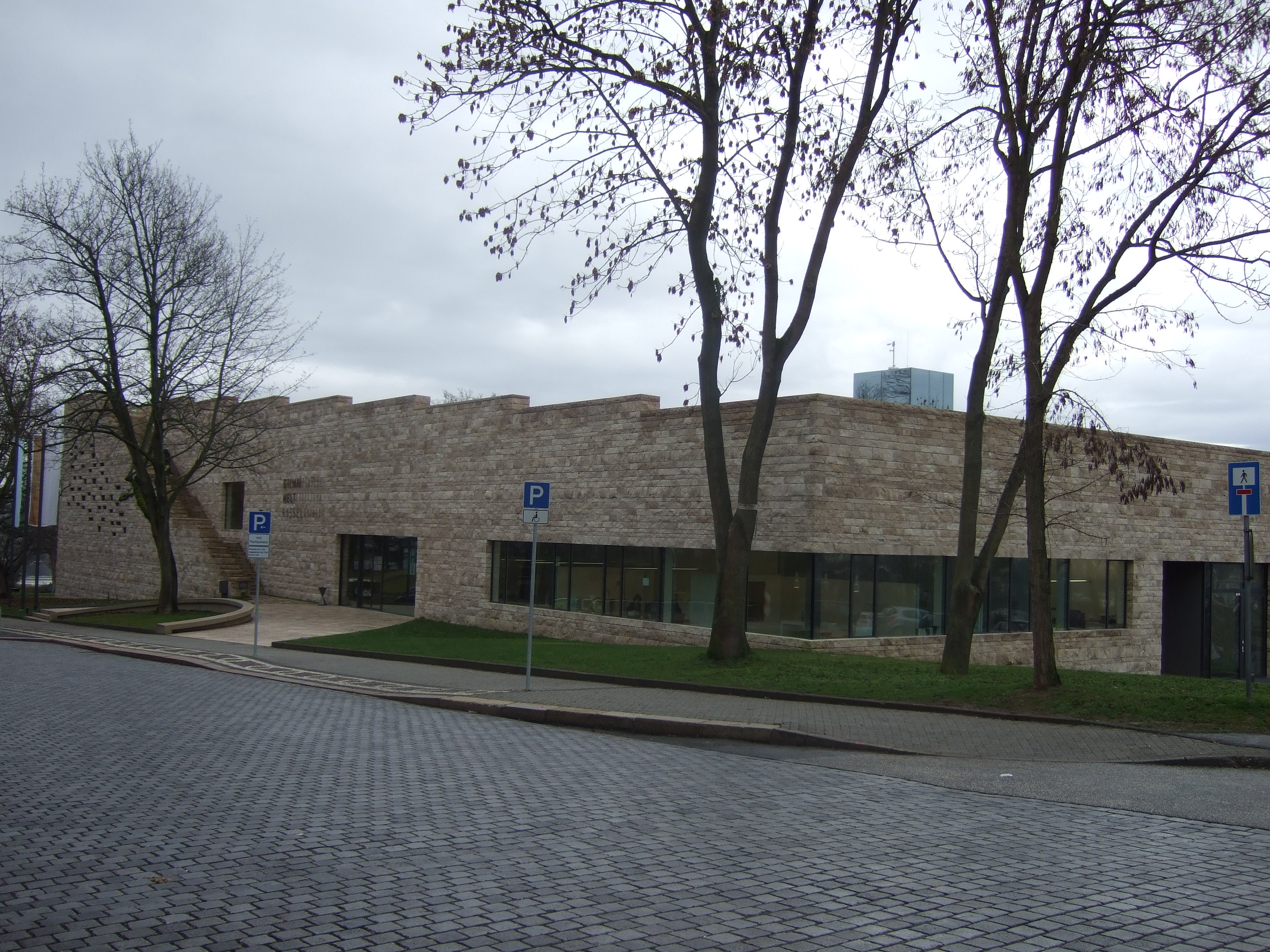 Grimmwelt Kassel